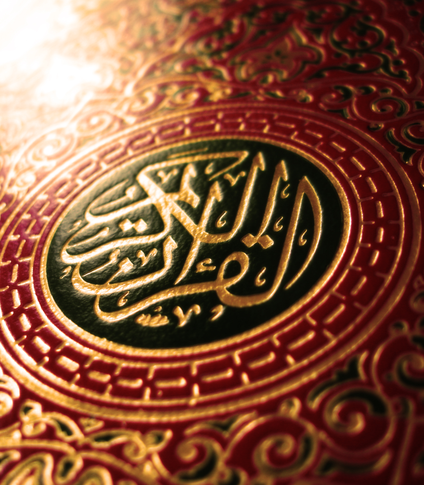 Front of the Koran